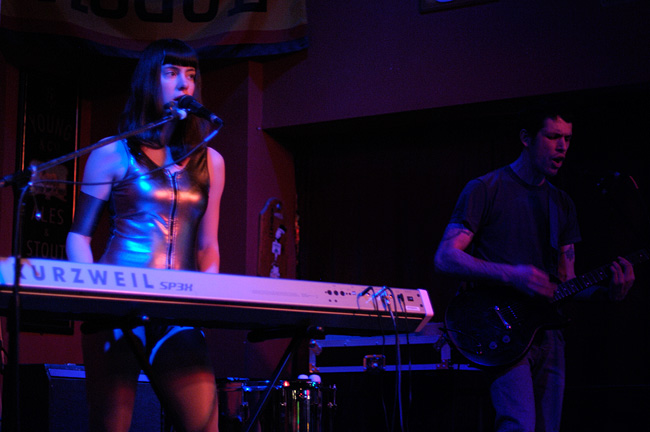 Amber Garvey and Joel Nass of The Violet Lights performing in Minneapolis, Minnesota in 2012